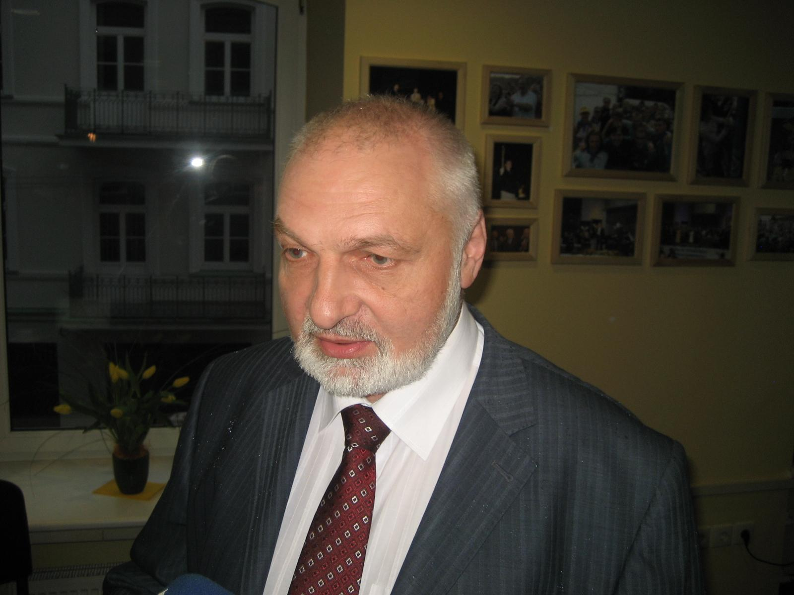 Presidential election of Lithuania, 2009-05-17. Valentinas Mazuronis and supporters waiting for results.